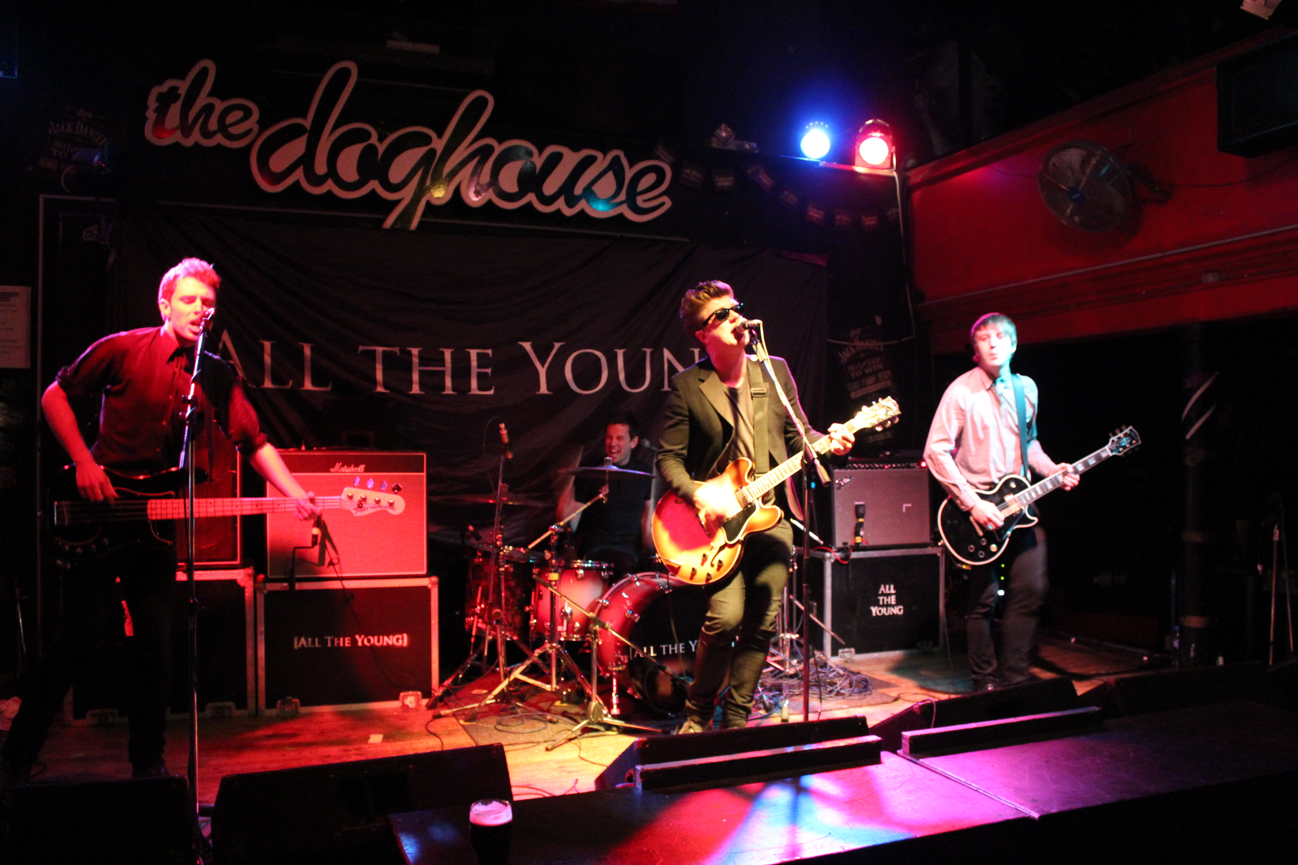 All The Young performing live at The Doghouse in Dundee, 14/6/2012.